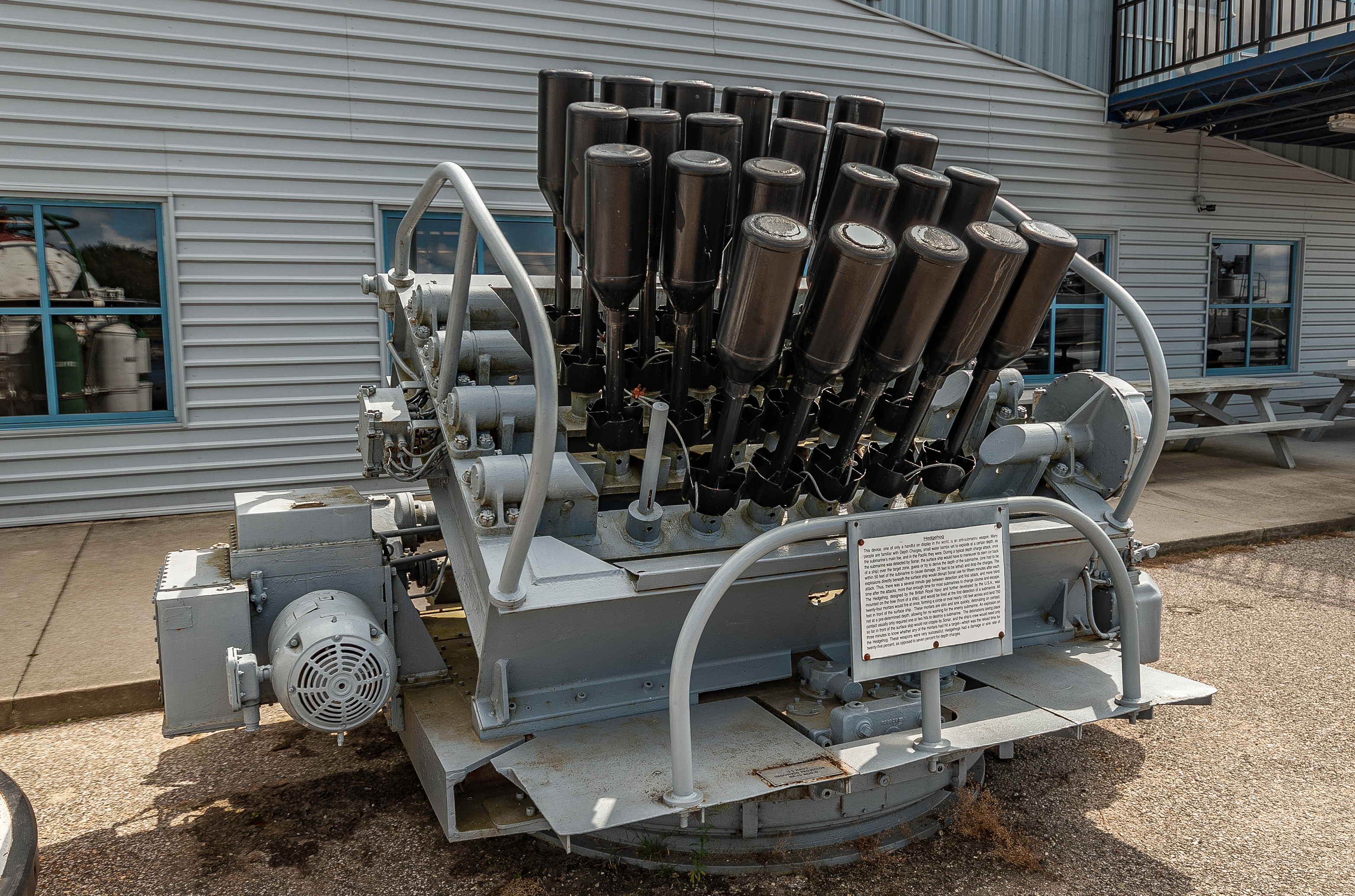 A hedgehog launcher on display at the USS Silversides museum in Muskegon, MI.